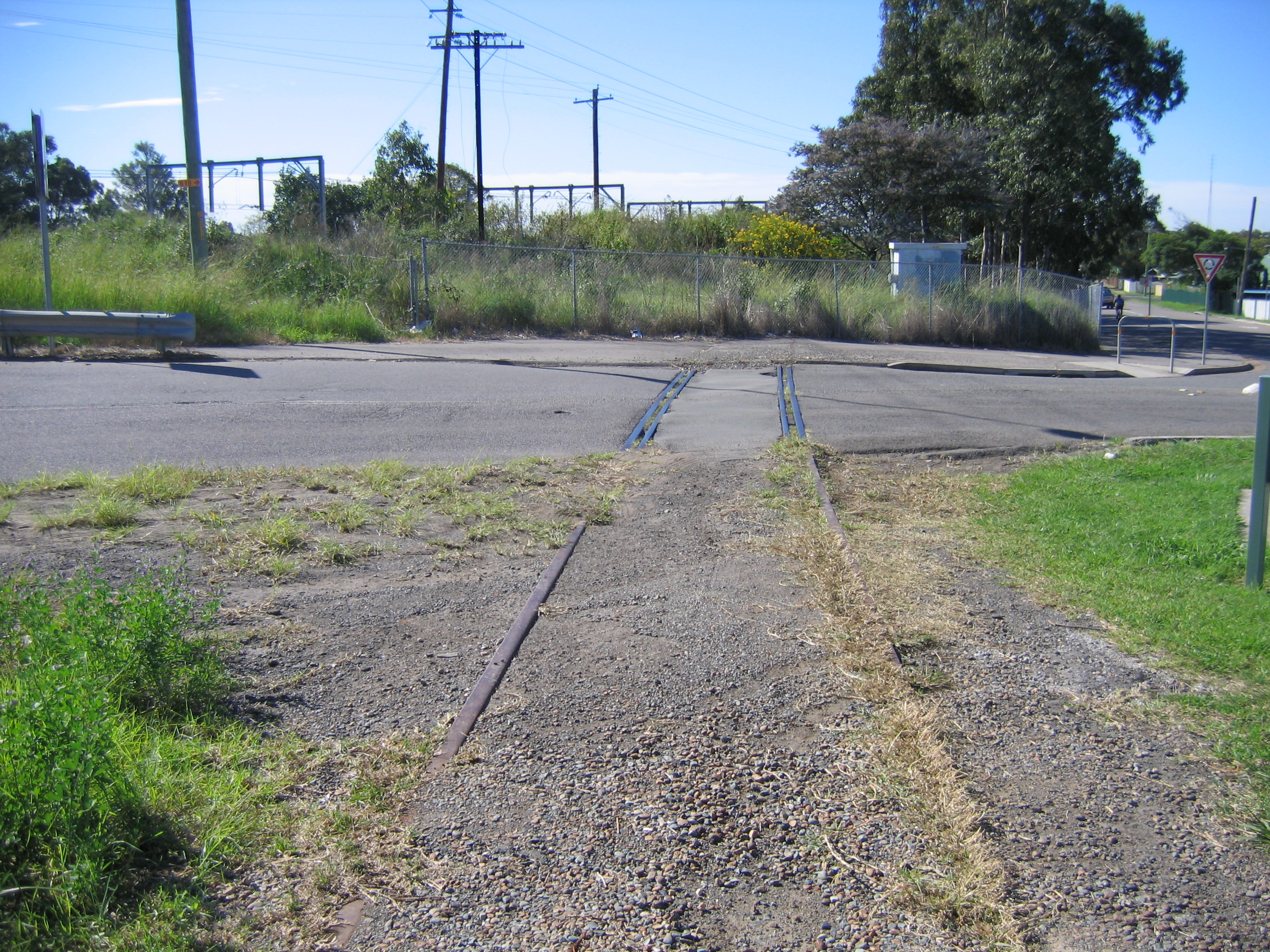 Disused Belmont line looking towards former junction near Adamstown Railway station